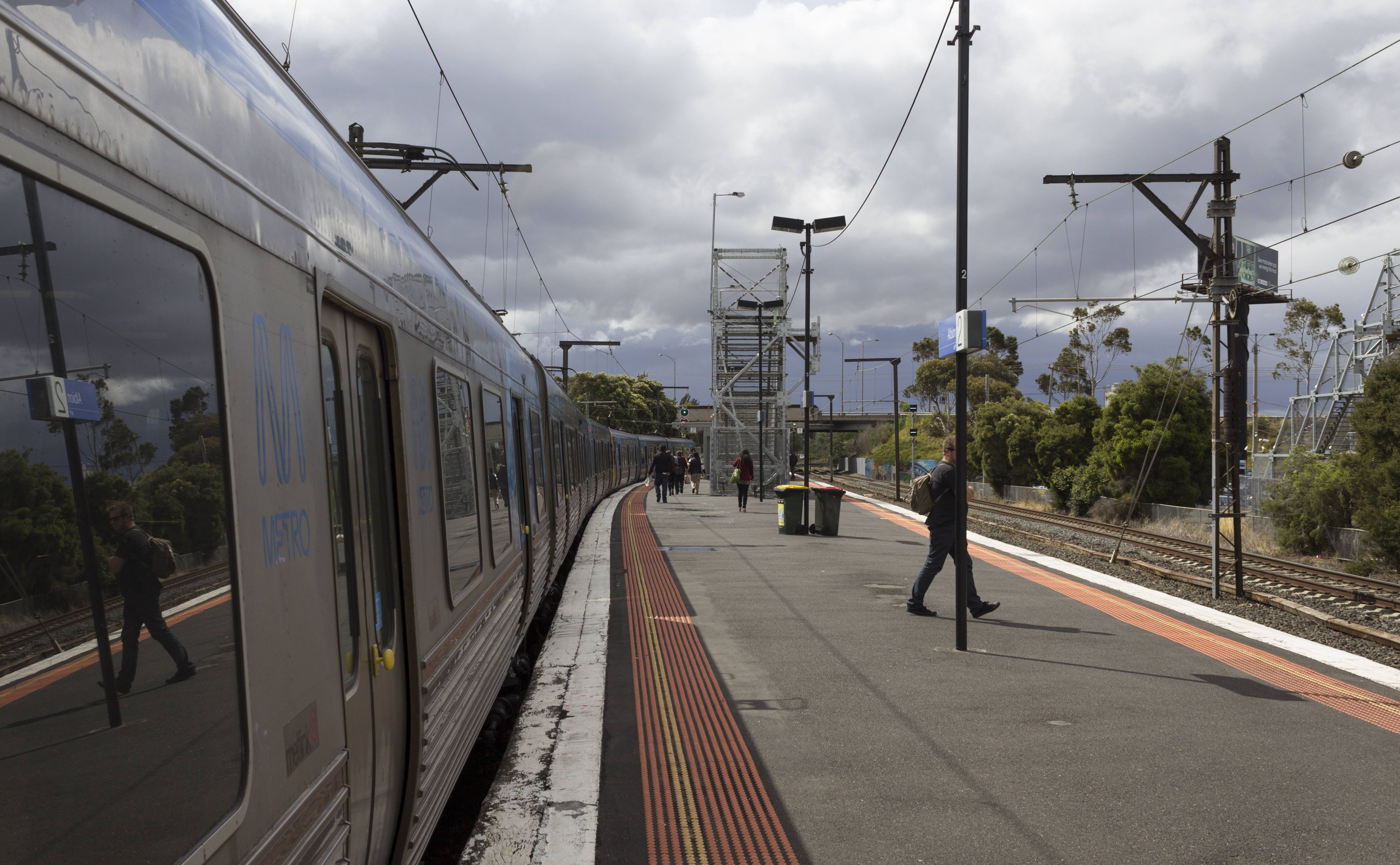 Comeng train at platform 2 of Albion railway station, 2013.